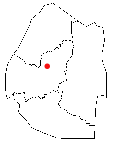 Manzini, Eswatini Location Map; created with the GIMP. Made by User:Acntx Ð¡Ð»Ð¸ÐºÐ°:SZ-Manzini.png